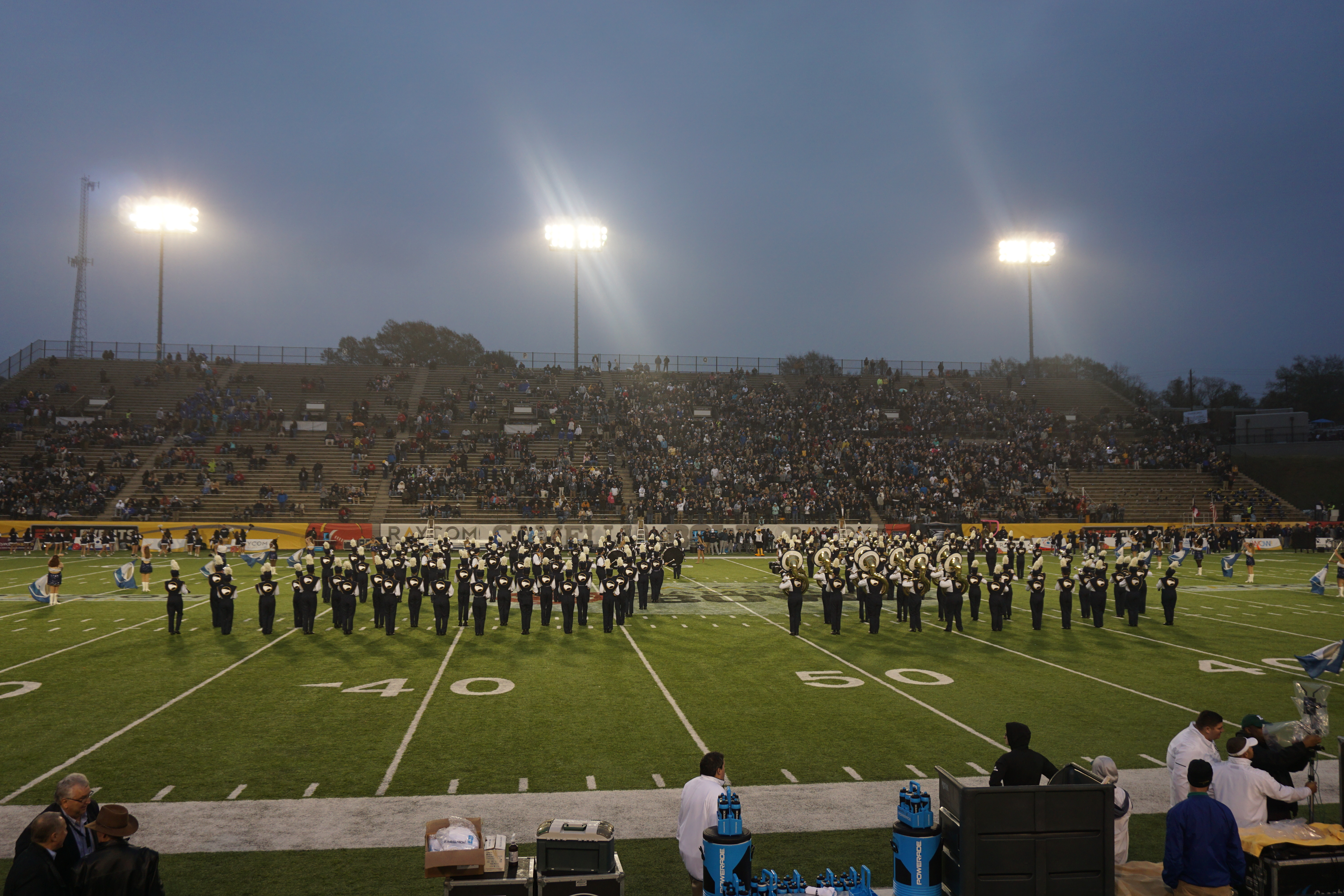 The Georgia Southern University Southern Pride Marching Band performing before the 2018 Camellia Bowl (Georgia Southern Eagles vs. Eastern Michigan Eagles) at the Cramton Bowl in Montgomery, Alabama (United States). Georgia Southern won 23–21.